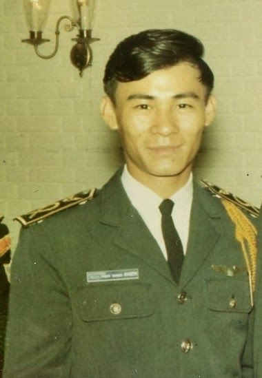 A young photograph of First Lieutenant Pham Quang Khiem